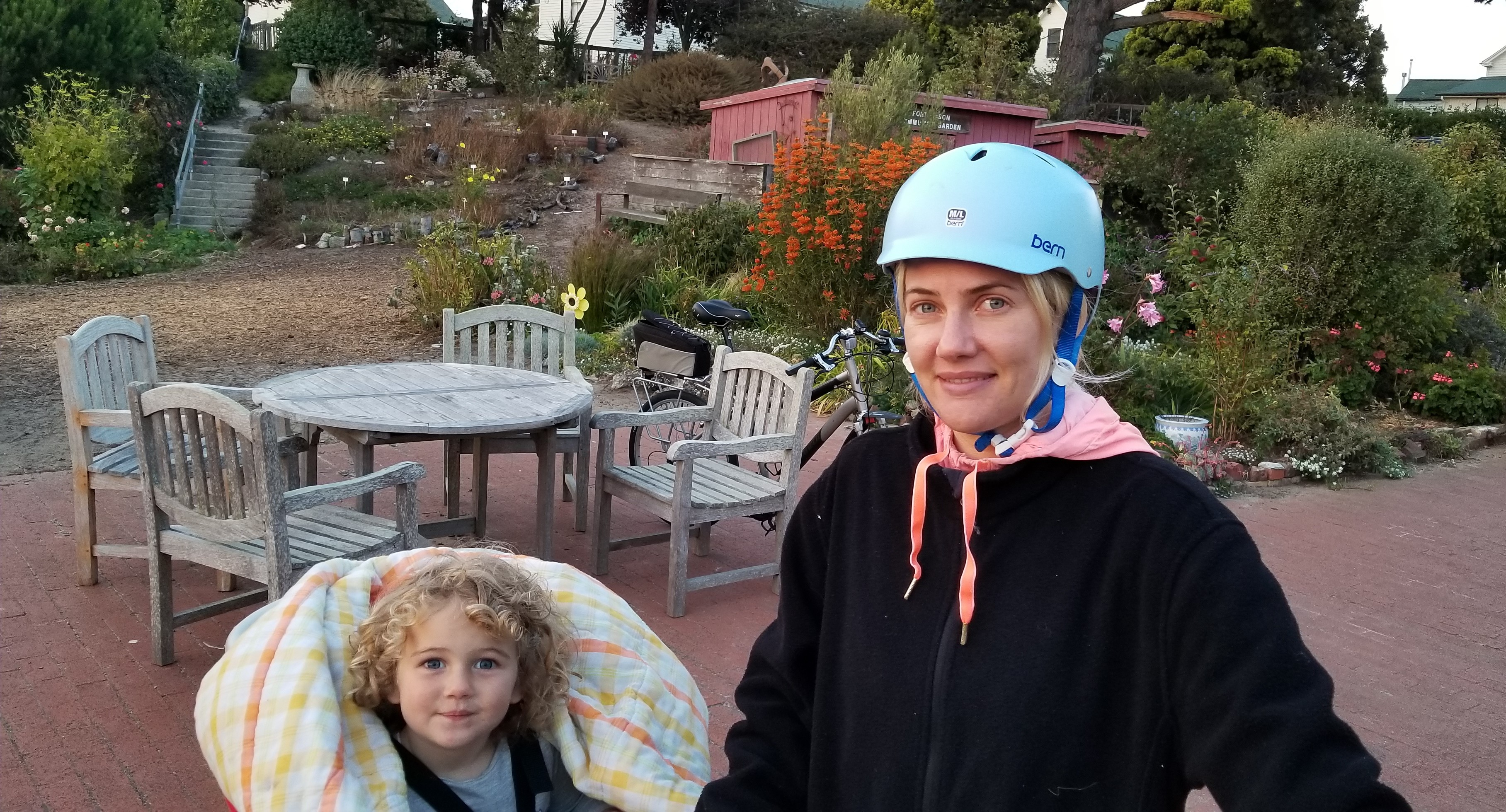 Katie Patrick, Australian environmental spokesperson, with daughter Anastasia.